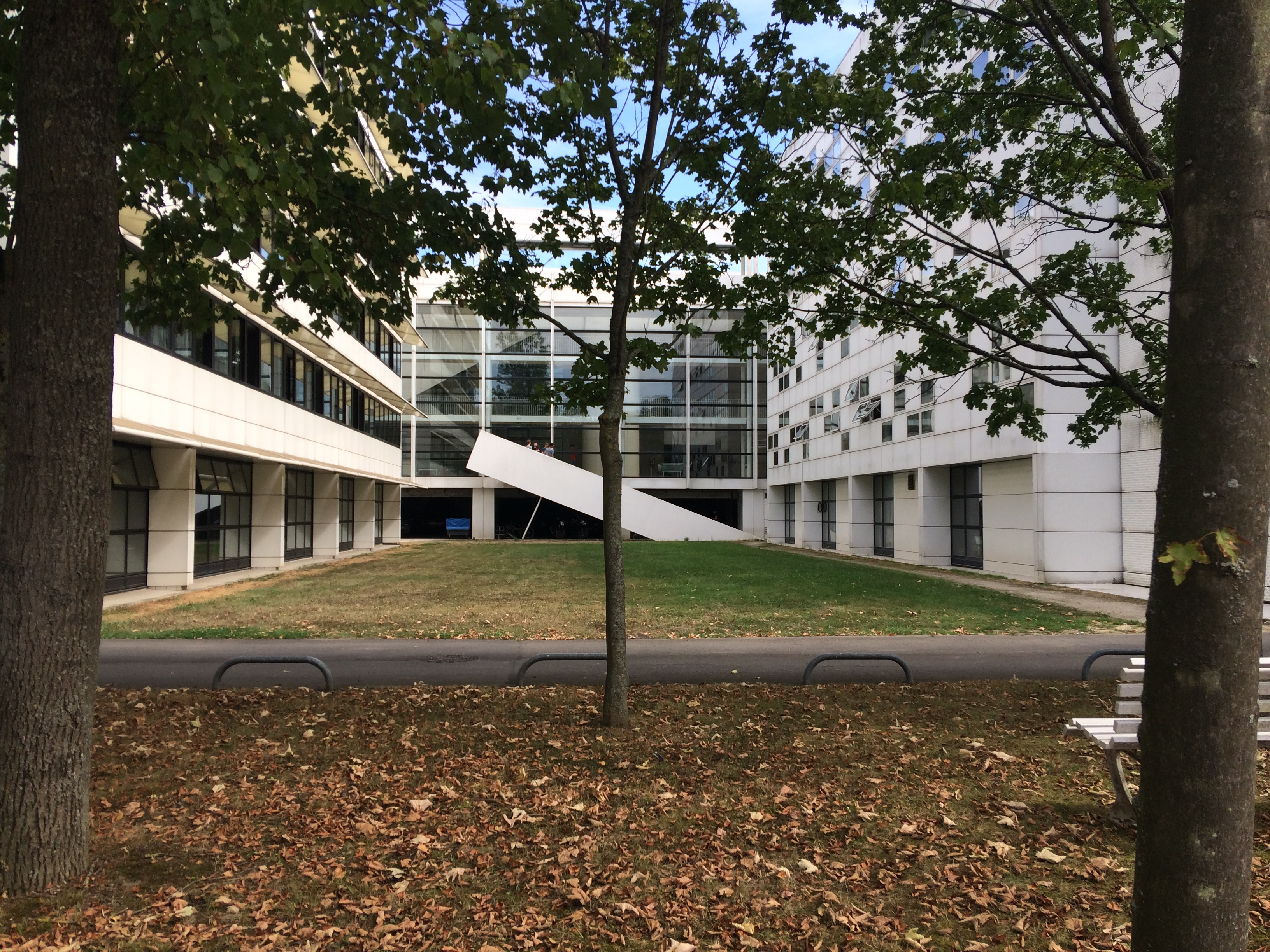 ESIEE Paris (French: École Supérieure d'Ingénieurs en Électrotechnique et Électronique) is a graduate school of engineering located in Marne-la-Vallée. The school was established in 1904 and is part of the ESIEE network of graduate schools.